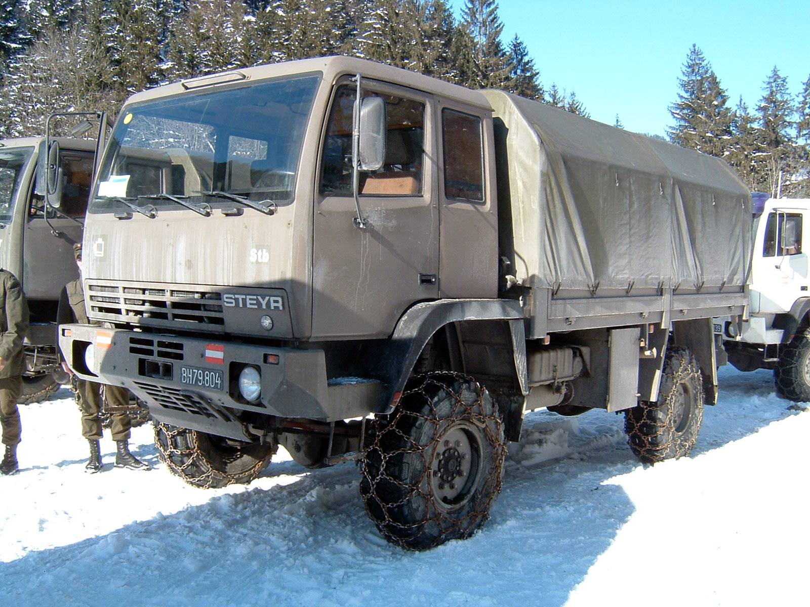 A Steyr 12M18 of the Austrian Armed Forces in winter